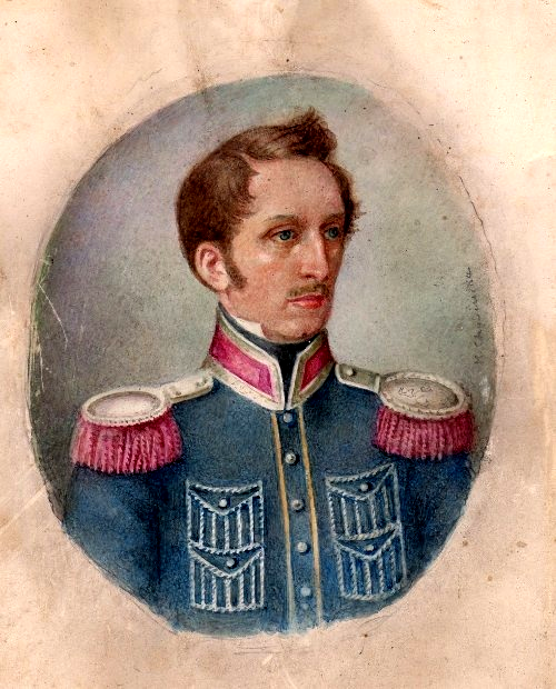 Michał Szweycer about 1830